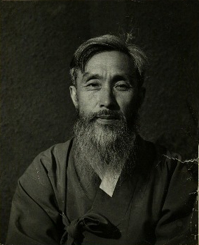 Hamseokheon in his youth